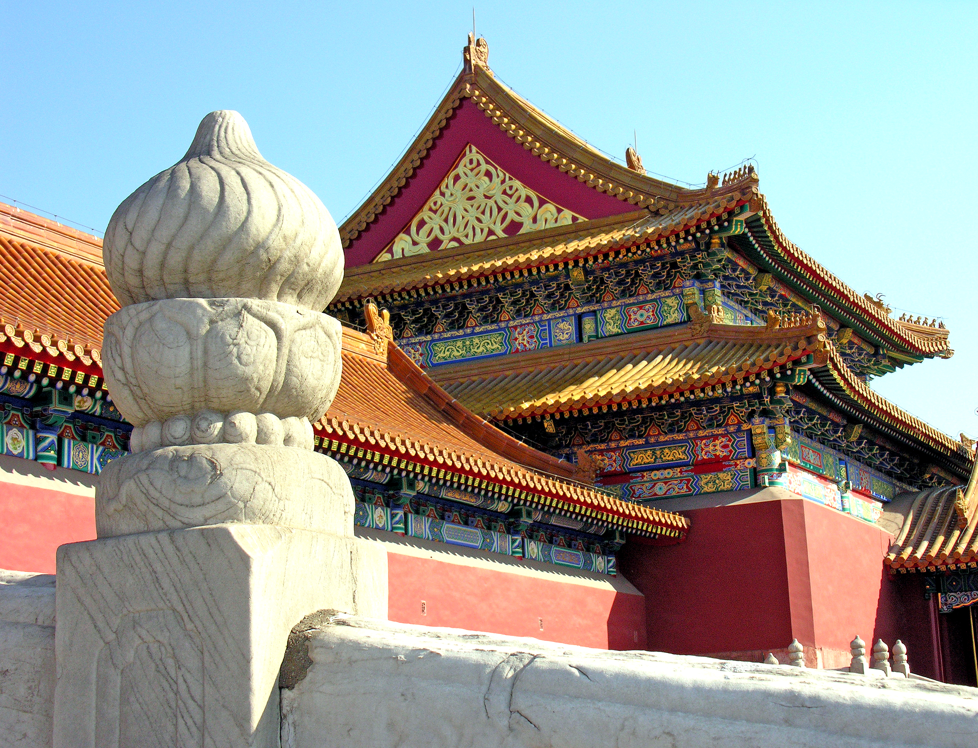 A close-up view of the tower to the right of the Gate of Supreme Harmony in the Forbidden City. Beijing, China